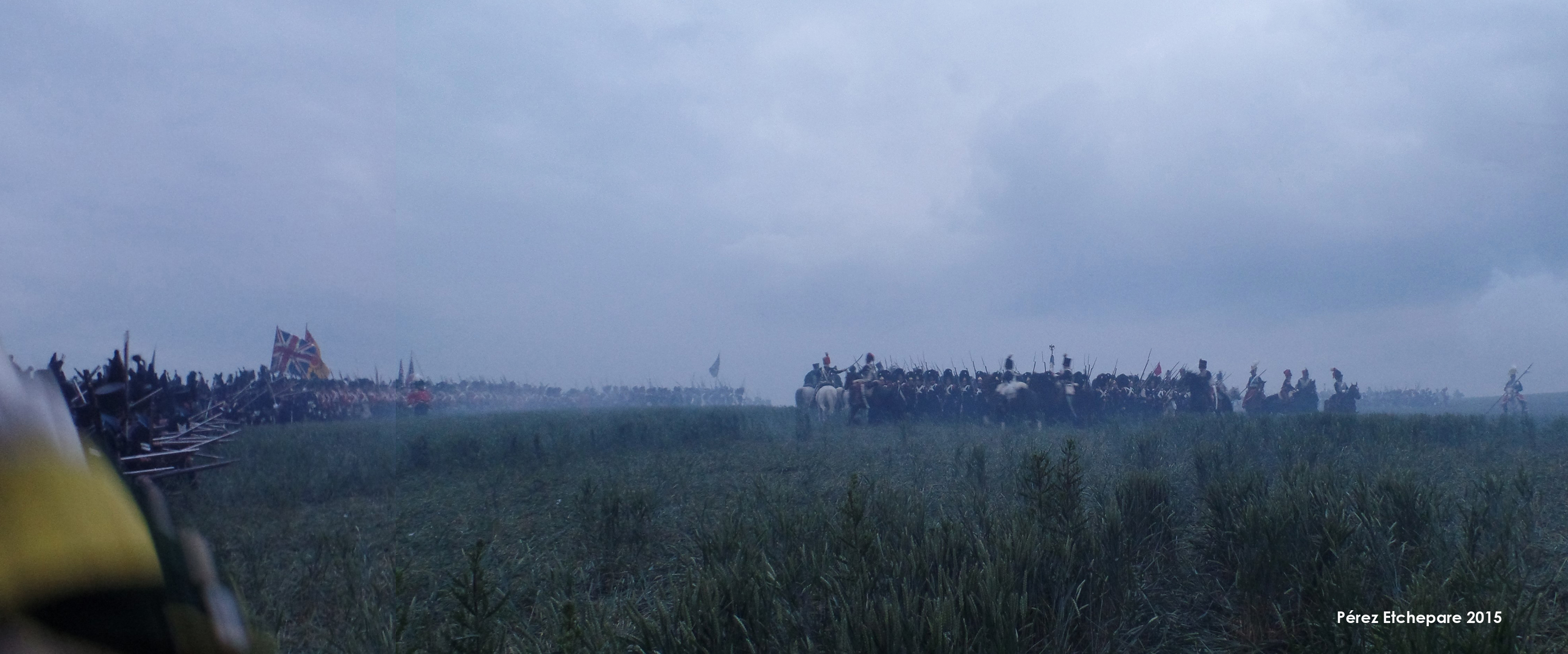 Battle of Waterloo Reenactment, Bicentenary, Waterloo, Belgium. Last moments of the french Old Guard, charged by cavalry and allied infantry. View from the Nederland Brigade, and to its left: Brunswick, Highlanders, and Prussian infantry battalions.